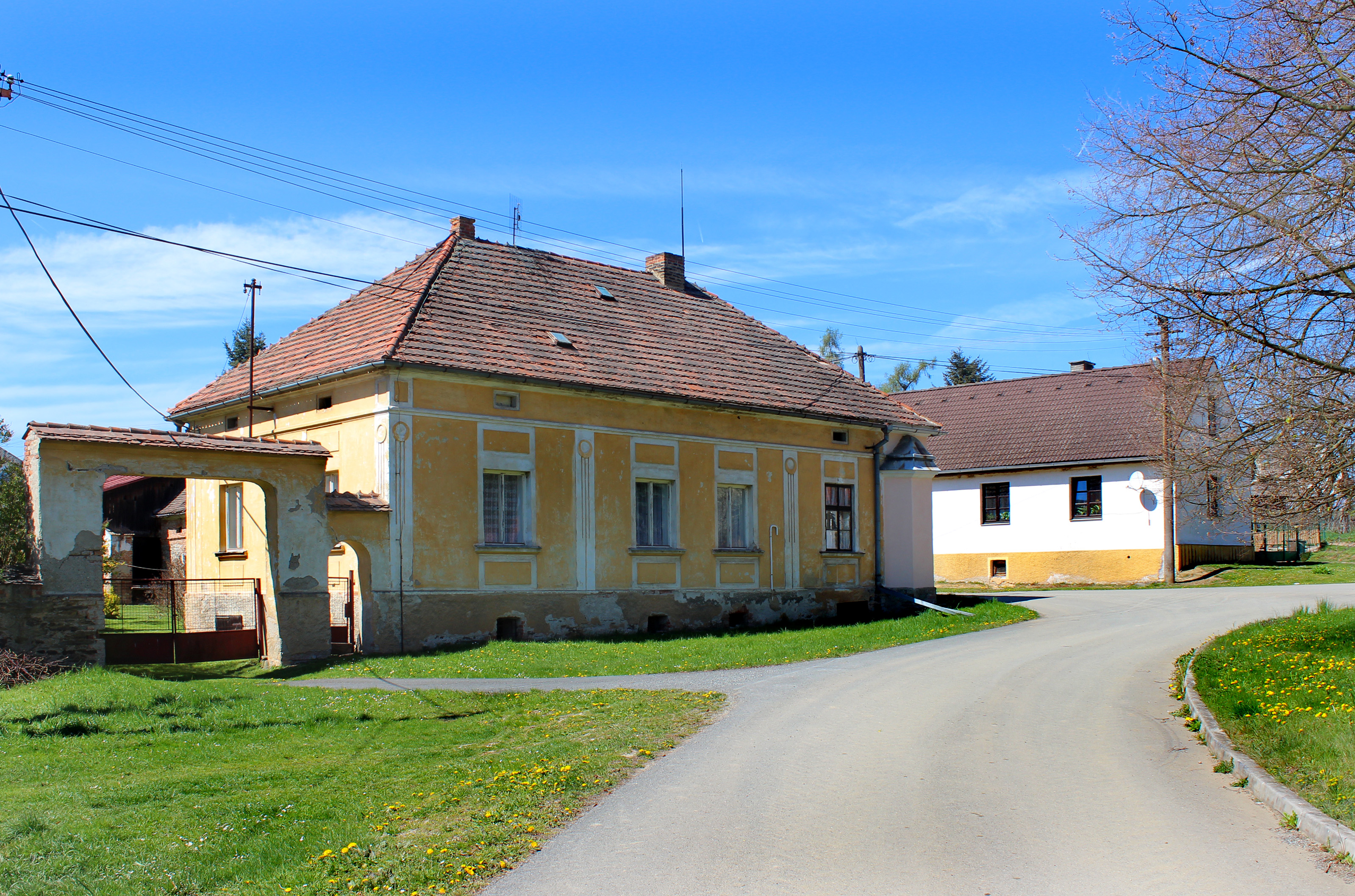 Common in Sviňomazy, part of Trpísty village, Czech Republic